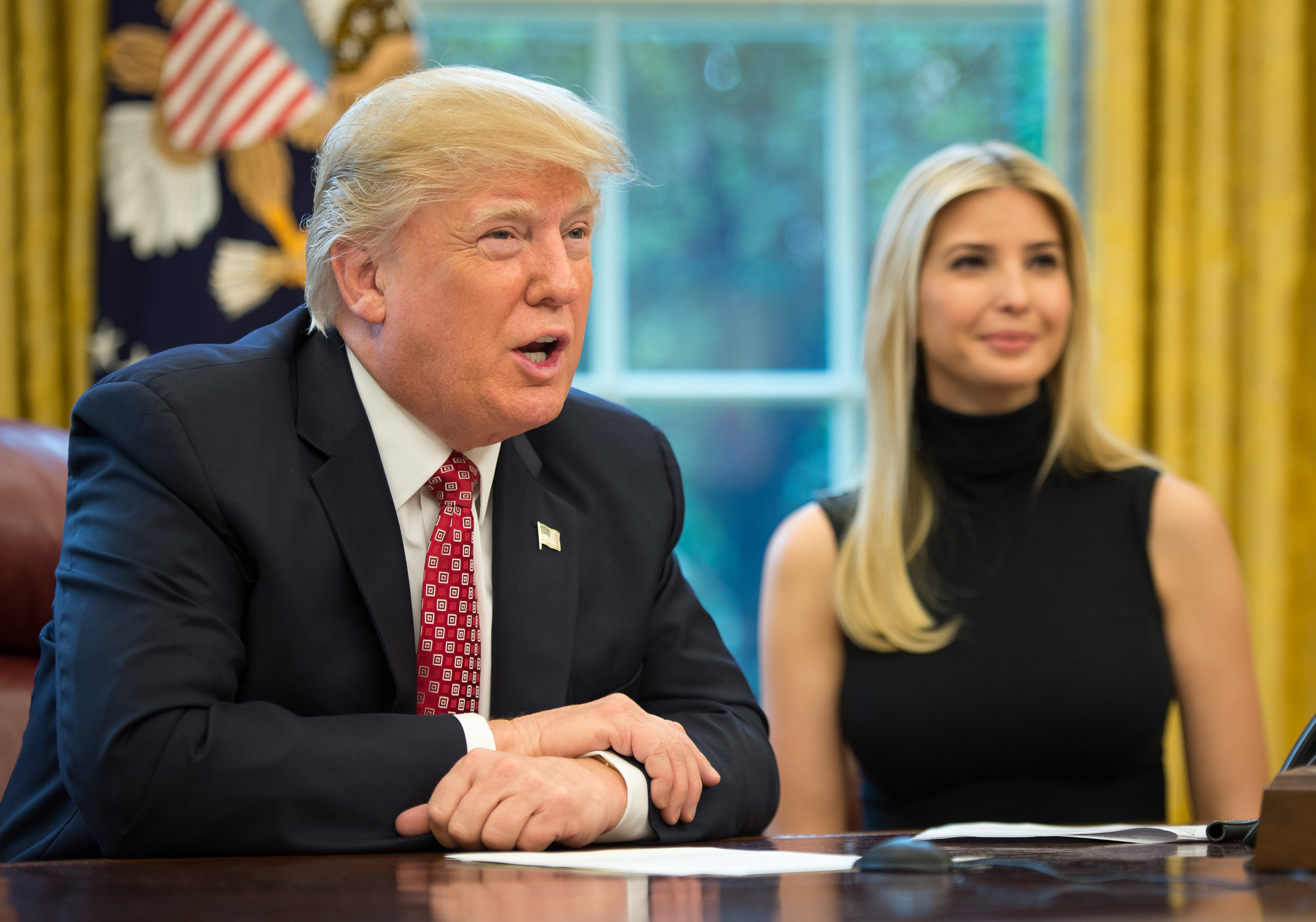 President Donald Trump, joined by First Daughter Ivanka Trump talks with NASA astronauts Peggy Whitson and Jack Fischer onboard the International Space Station Monday, April 24, 2017 from the Oval Office of the White House in Washington. The President congratulated Whitson for breaking the record for cumulative time spent in space by a U.S. astronaut. The President and First Daughter were also joined by NASA astronaut Kate Rubins and discussed with the three astronauts what it is like to live and work on the orbiting outpost as well as the importance of STEM.